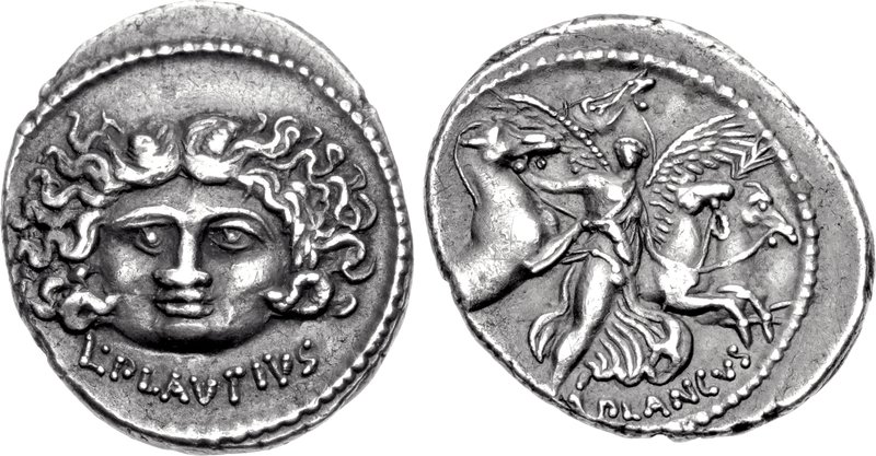 L. Plautius Plancus 47 BC. AR Denarius (17mm, 3.54 g, 7h). Rome mint. Facing head of Medusa, with coiled snake on either side of face / Victory (or Aurora) flying right, holding palm frond and conducting the four horses of the sun. Crawford 453/1a; CRI 29; Sydenham 959; Plautia 15. EF, toned, traces of deposits on reverse. Exceptional for issue.